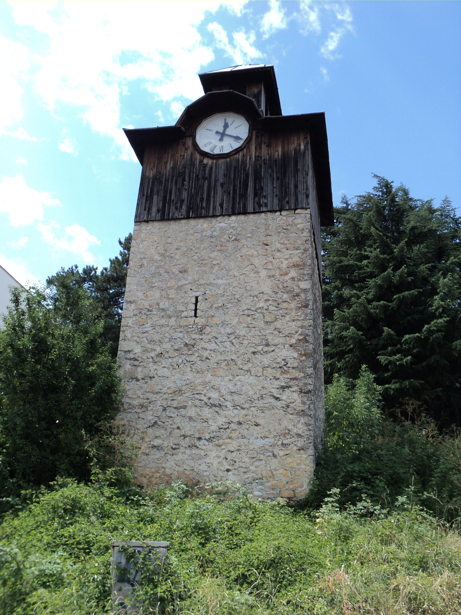 Clock tower in Ohrid.